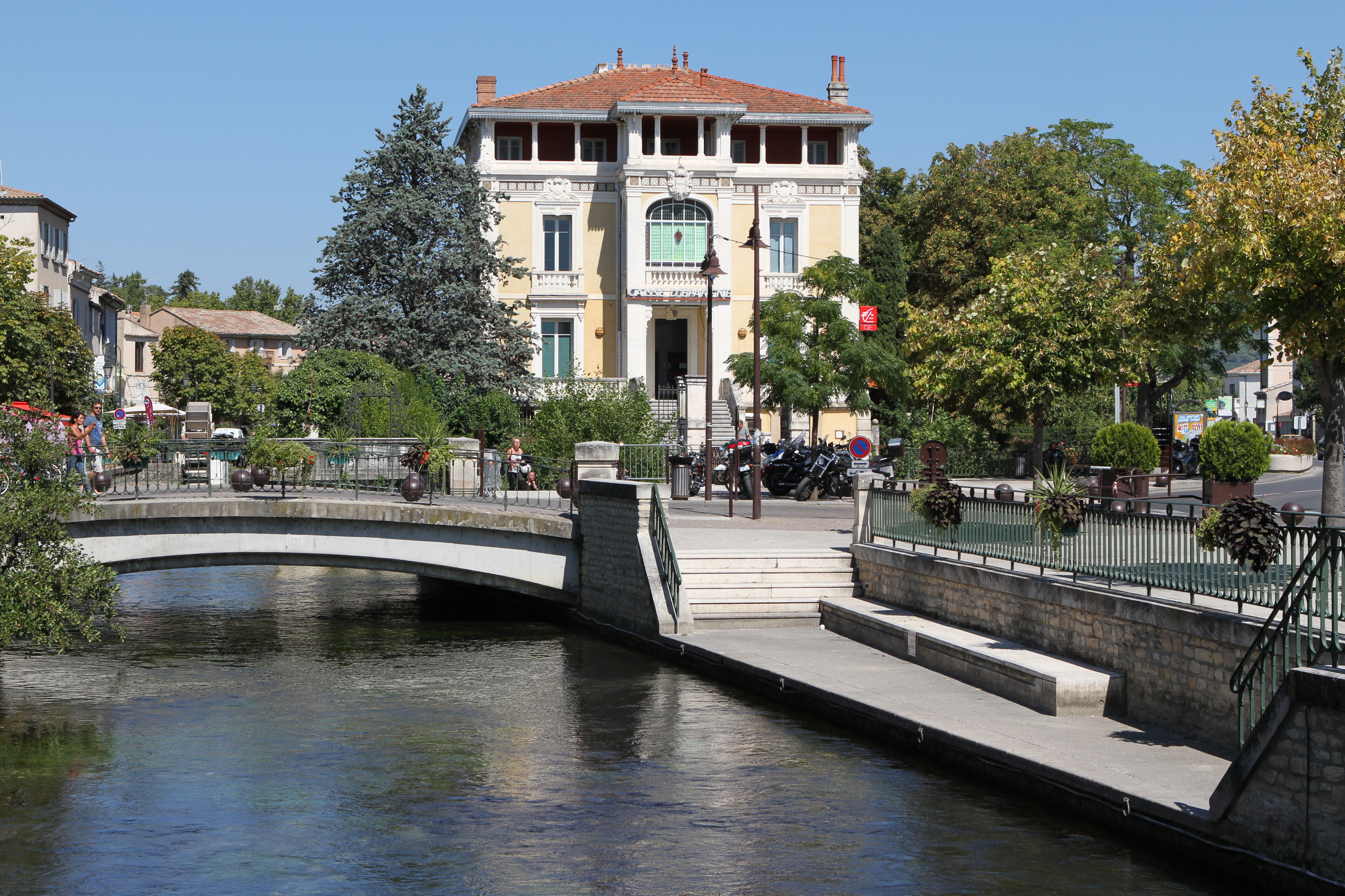 L'Isle-sur-la-Sorgue (Vaucluse, France)